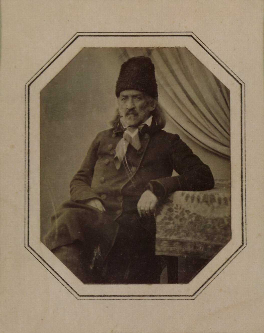 Daguerreotype by Alfred Davignon, ca. 1845